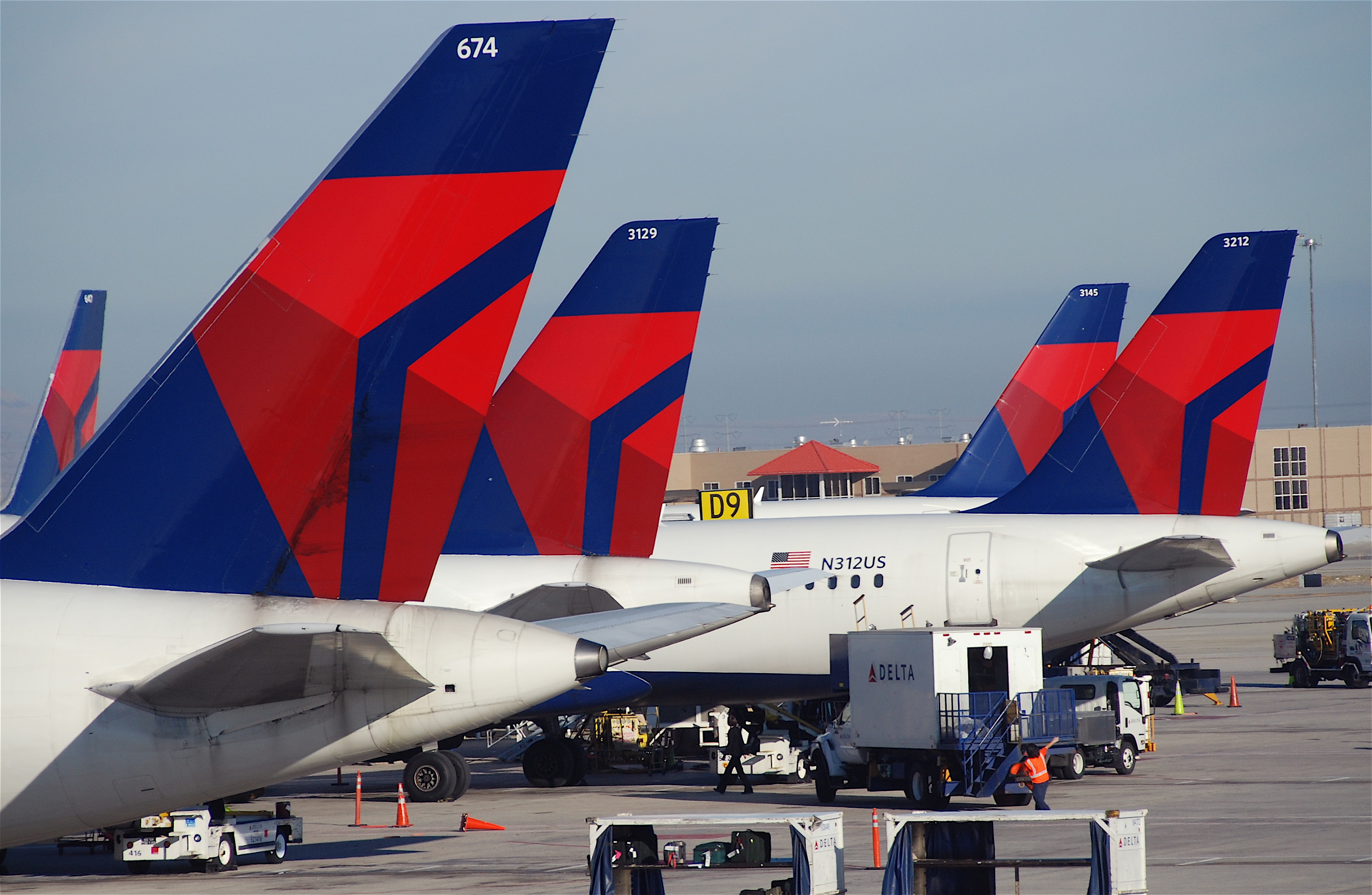 N312US embedded between Boeings and fellow Airbii...